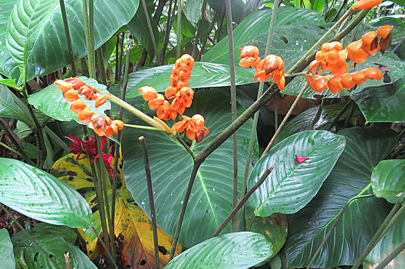 In both the Amazon basin and highlands of Ecuador and Peru, the leaves are use to wrap items for cooking. Photo from the Omaere Etnobotanical Garden, Puyo, Ecuador.